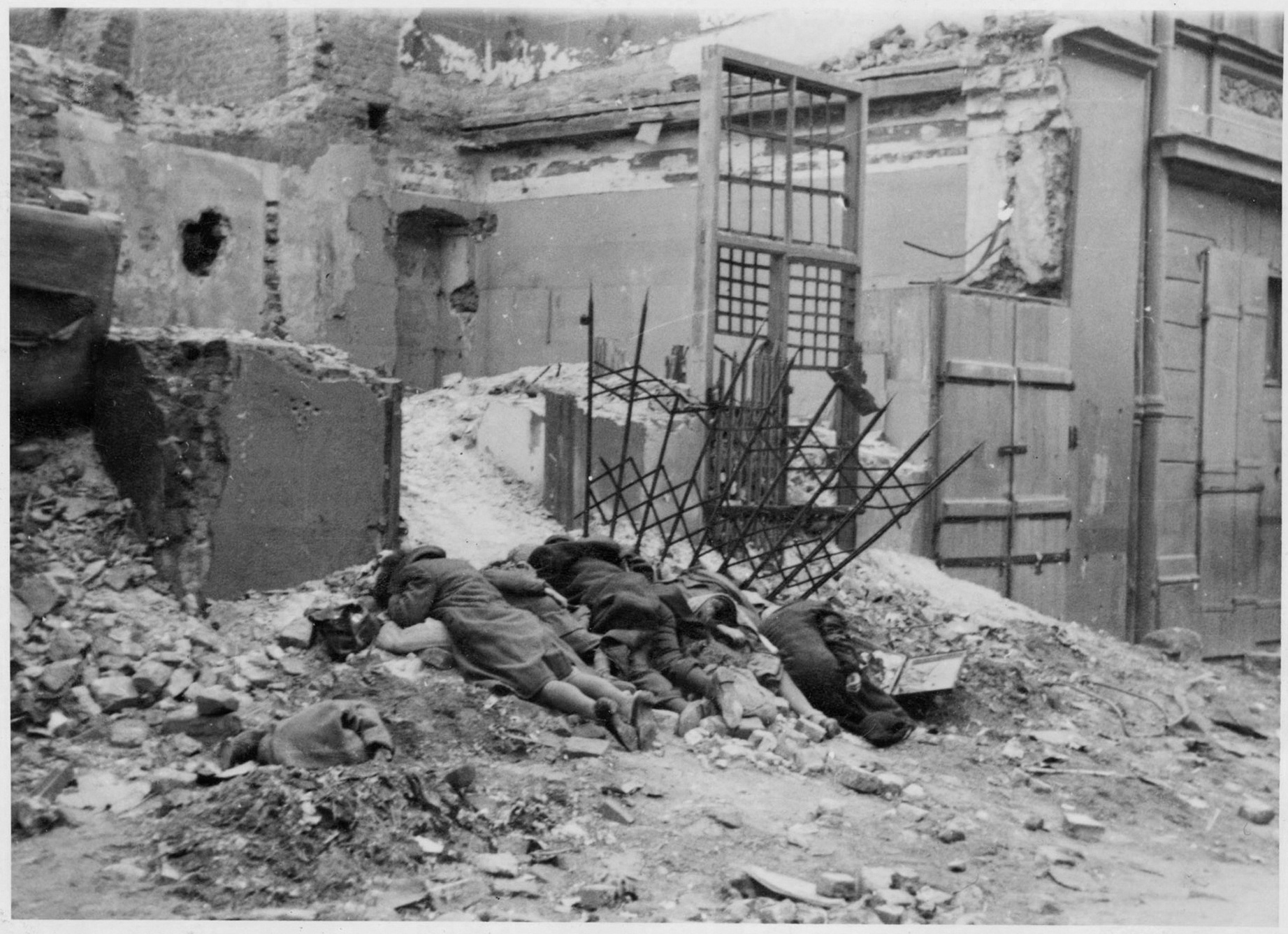 Warsaw Ghetto Uprising - The bodies of Jews executed after their capture.